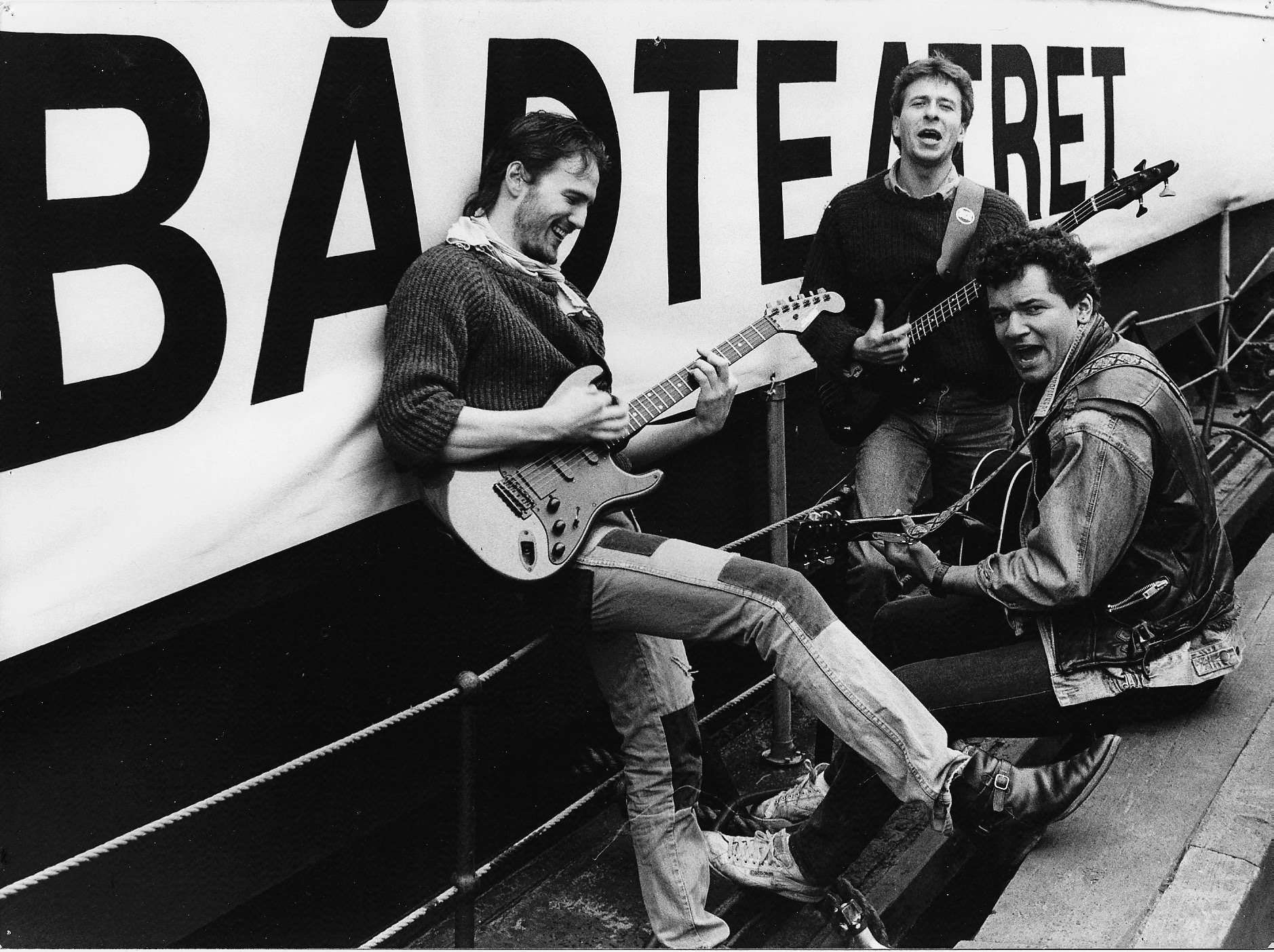 Plat, Mads Kesier, Michael Carøe, Peter Kær